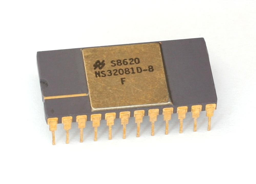 FPU National Semiconductor NS32081.